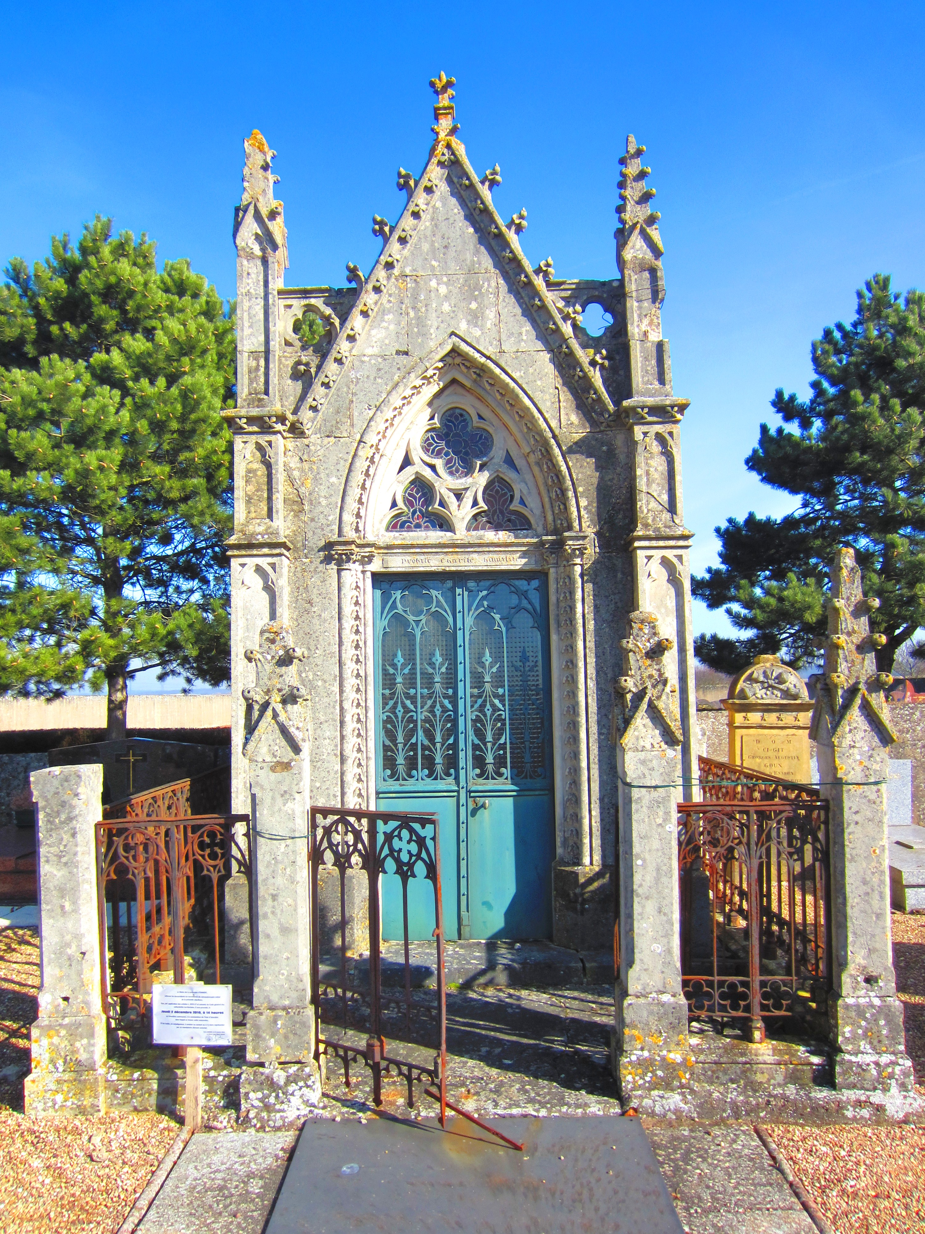 Ennery cemetary chapel